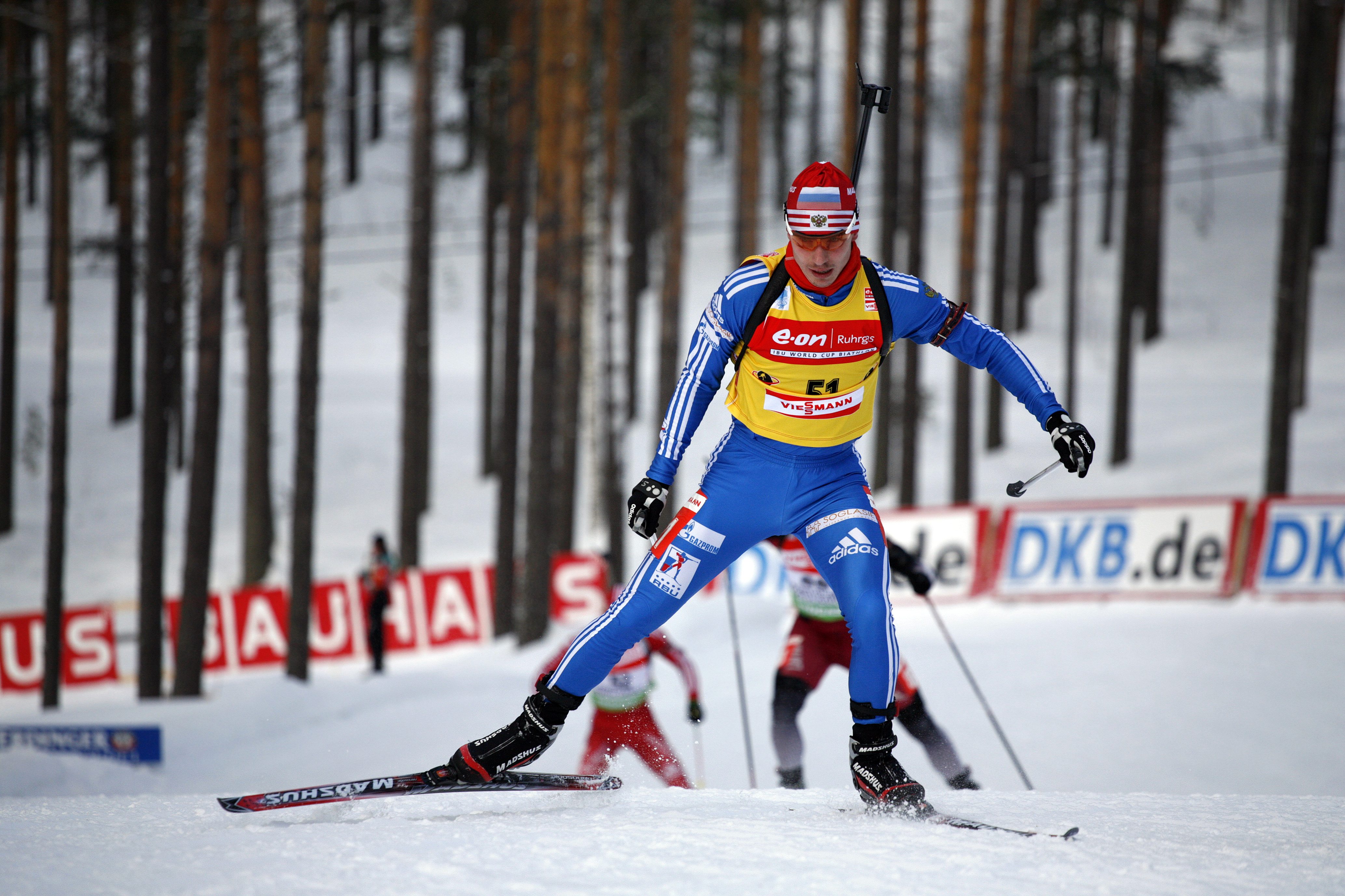 Evgeny Ustyugov. Men 10 km sprint, 13 march 2010, Kontiolahti.